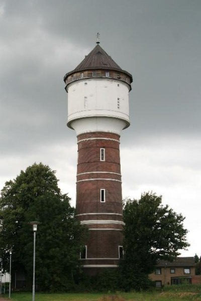 Cultural heritage monument No. 148 in Nettetal